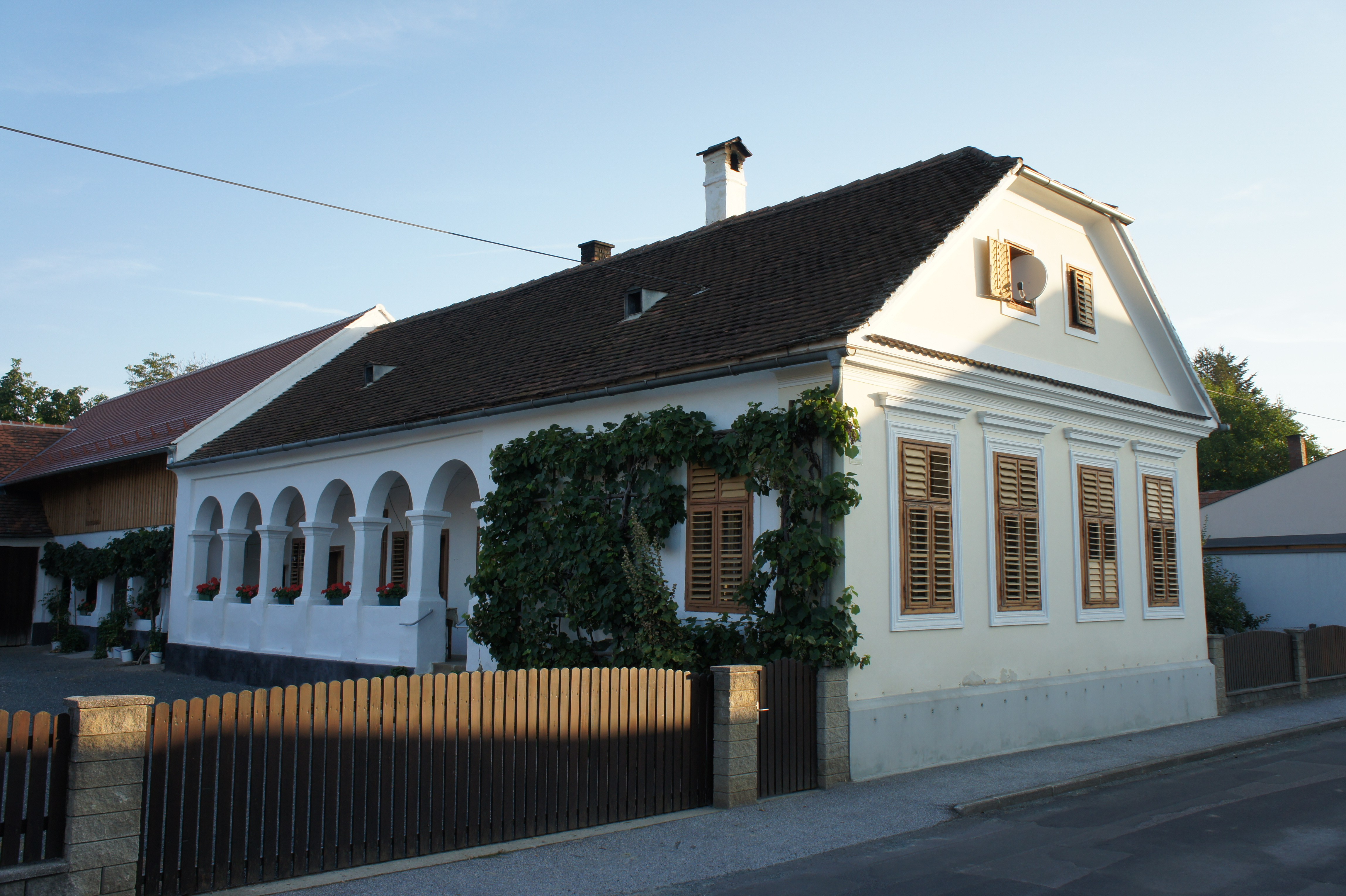 Farmhouse Johann Straußgasse 46, Oberwart, Austria